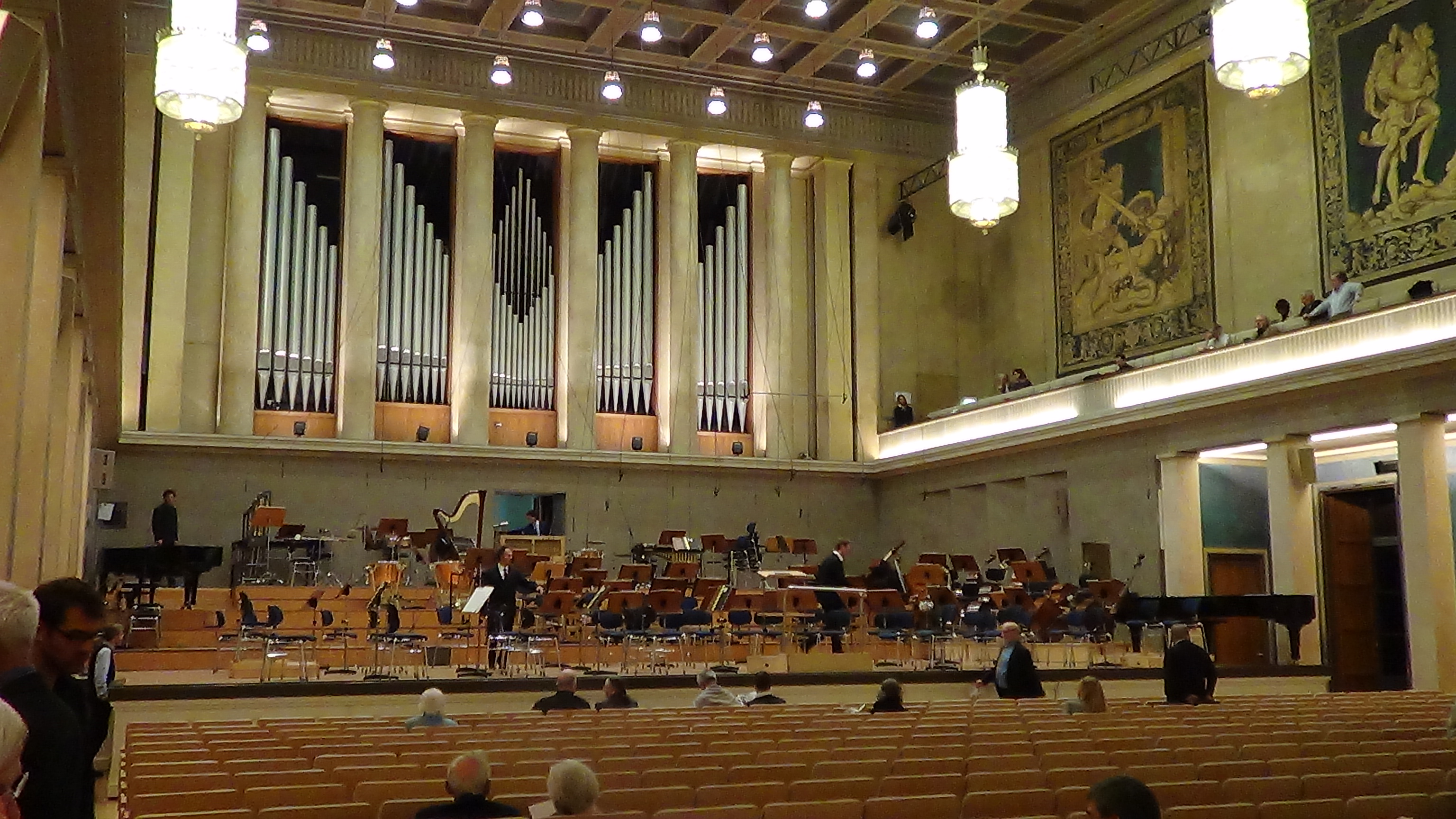 Herkulessaal, concert hall in the Munich Residence